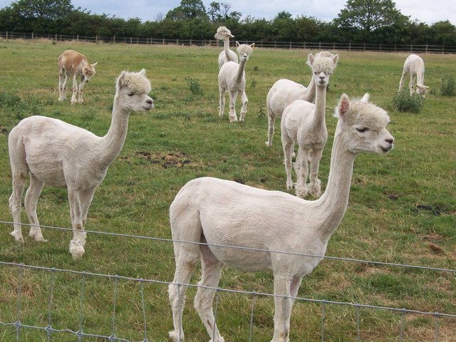 Alpacas near Thurlaston village